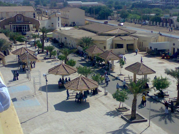 University of Science and Technology (Sudan), a view from IT campus